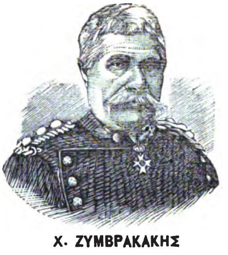 Poikilē stoa: ethnikē eikonographēnenē epetēris ... Etos 1-16, 1881-1914 (1881) Author: Ioannes A. Arsenēs , Michael A . Raphaelobits Volume: 1-2 Publisher: Estia Year: 1881 Possible copyright status: NOT_IN_COPYRIGHT Language: Greek Digitizing sponsor: Google Book from the collections of: Harvard University Collection: americana